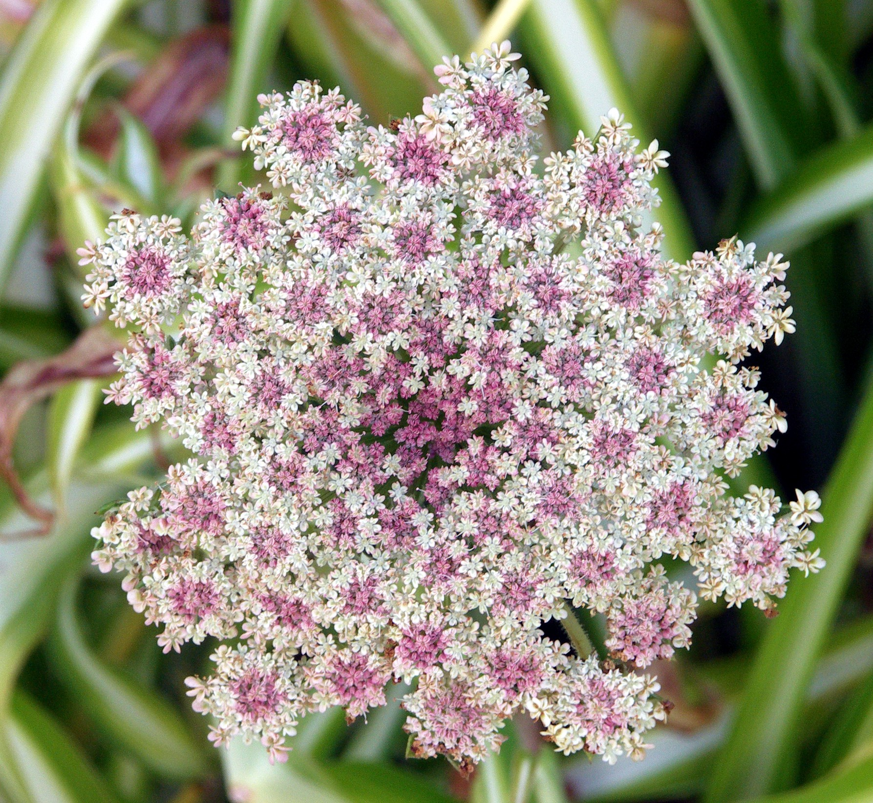 Umbela of a wild carrot (Daucus carota)